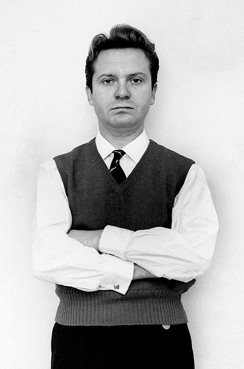 Italian impersonator and showman Alighiero Noschese posing beside some wooden masks kept in his house in Via di Ville Emiliani 4. Rome, 1962.